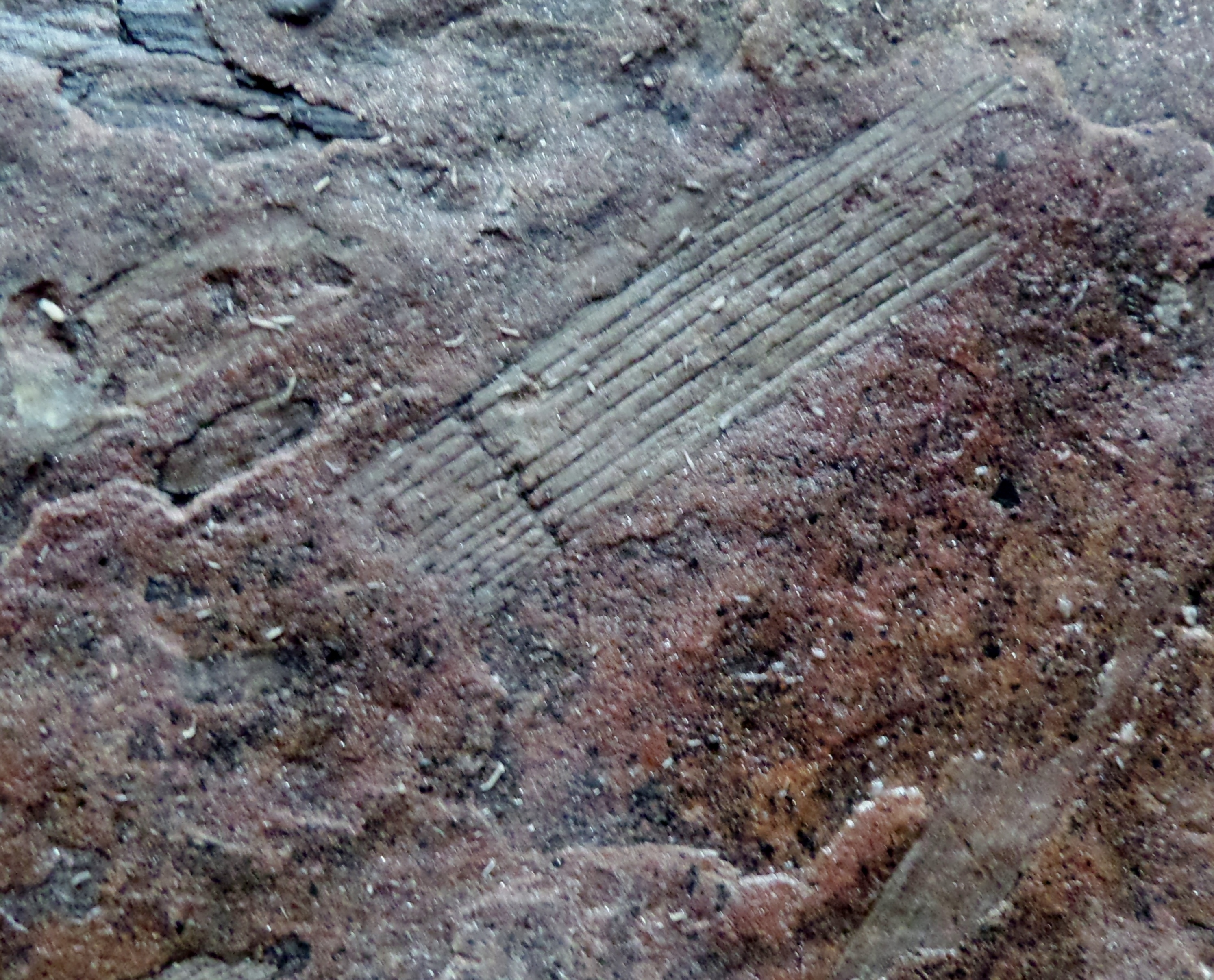 Horsetail (Equisetum sps) fossil in mining waste shale, Stevenston Local Nature Reserve, North Ayrshire, Scotland.